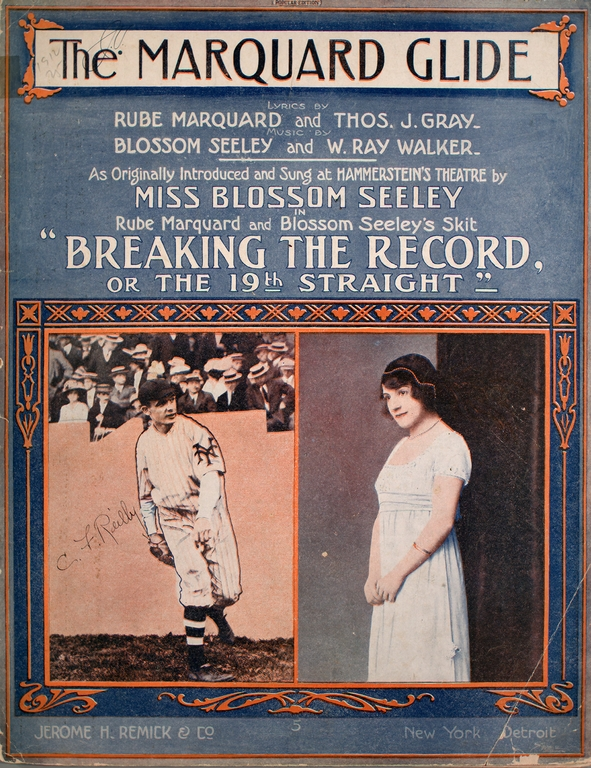 Sheet music cover showing Rube Marquard and Blossom Seeley.